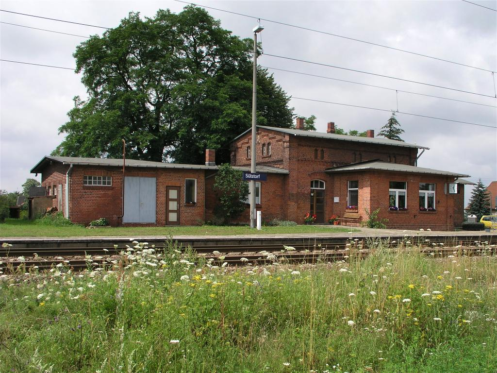 Sülstorf, Mecklenburg, Germany: railway-station, photo 2004